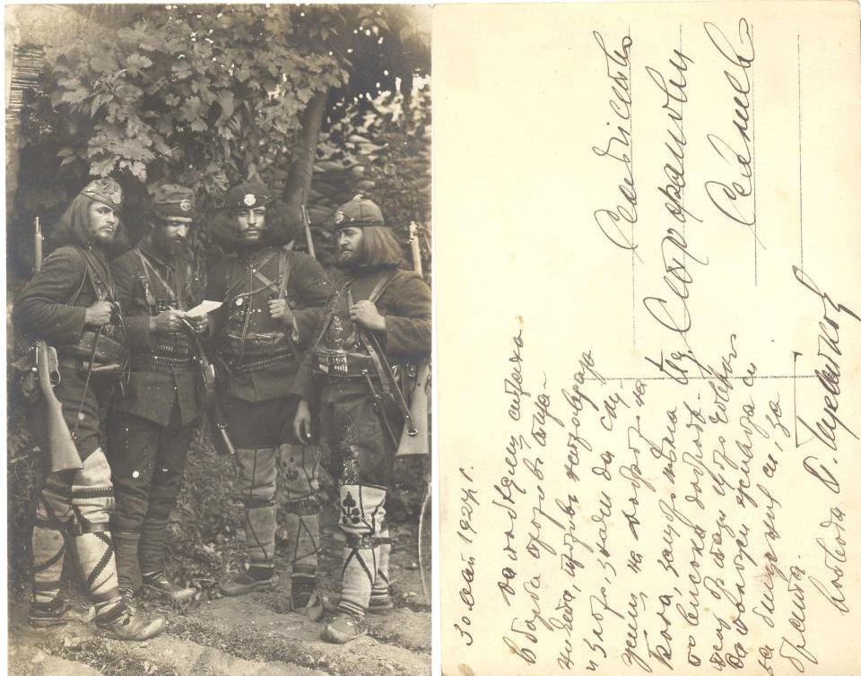 Cheta of Pando Strumishki, IMRO activists